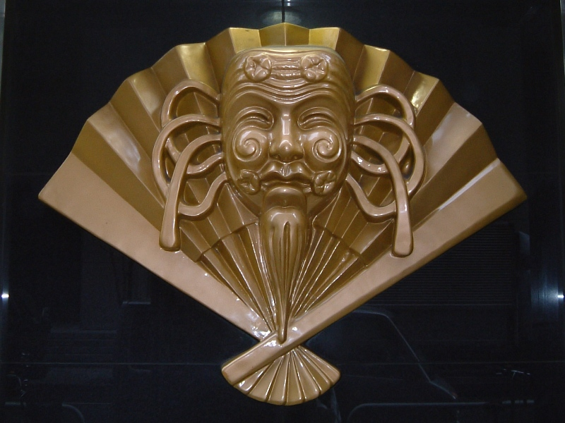 Okinamen (Noh mask), the emblem of Imperial Garden Theater in Chiyoda-ku, Tokyo